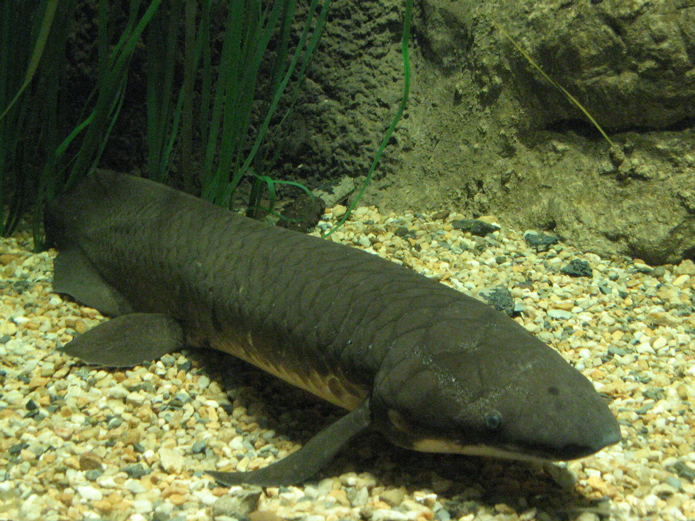 Neoceratodus forsteri (Australian lungfish) at the National Zoo & Aquarium in Canberra, Australia